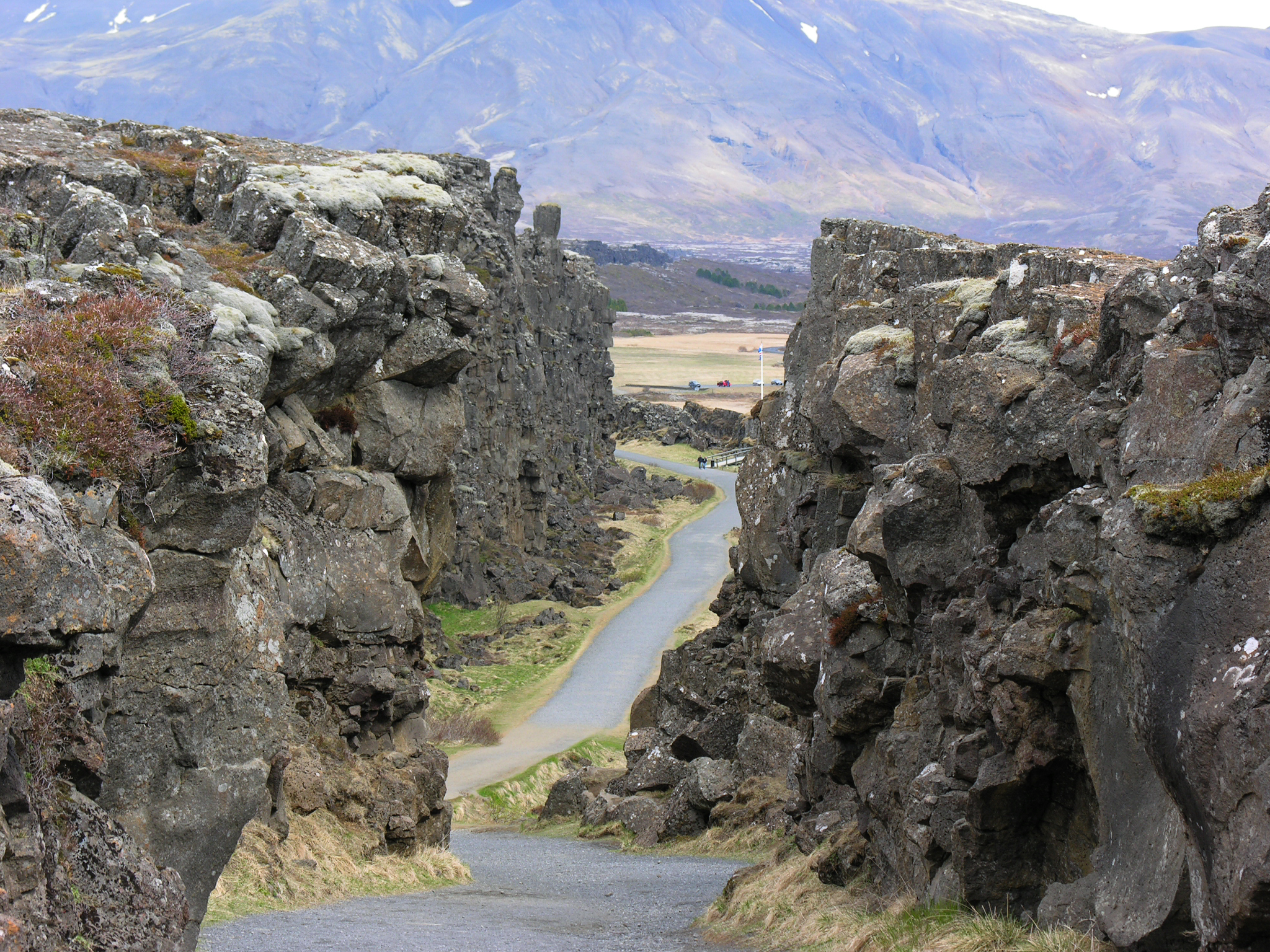 Iceland , Þingvellir National Park